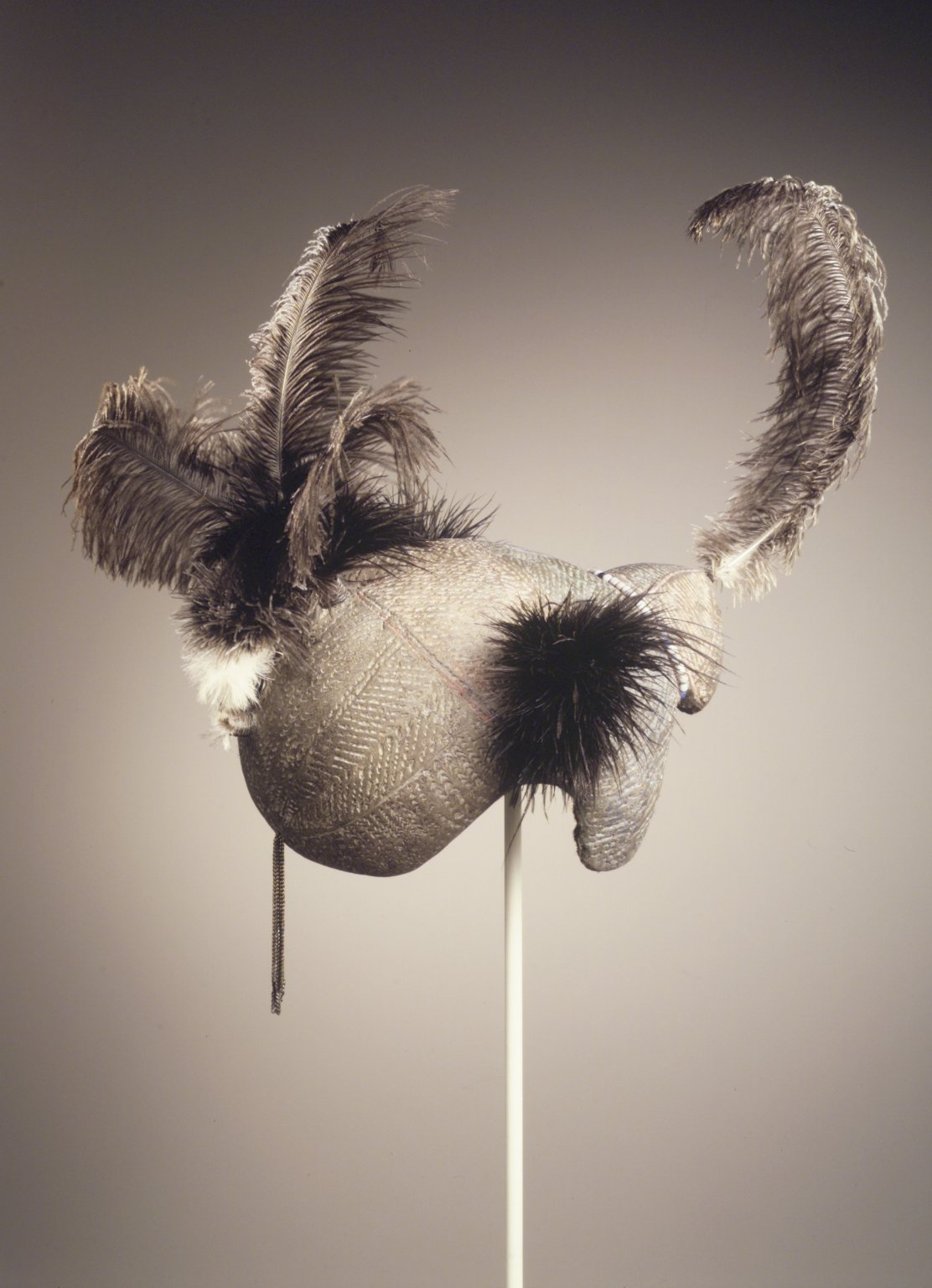 Mudpack Coiffure